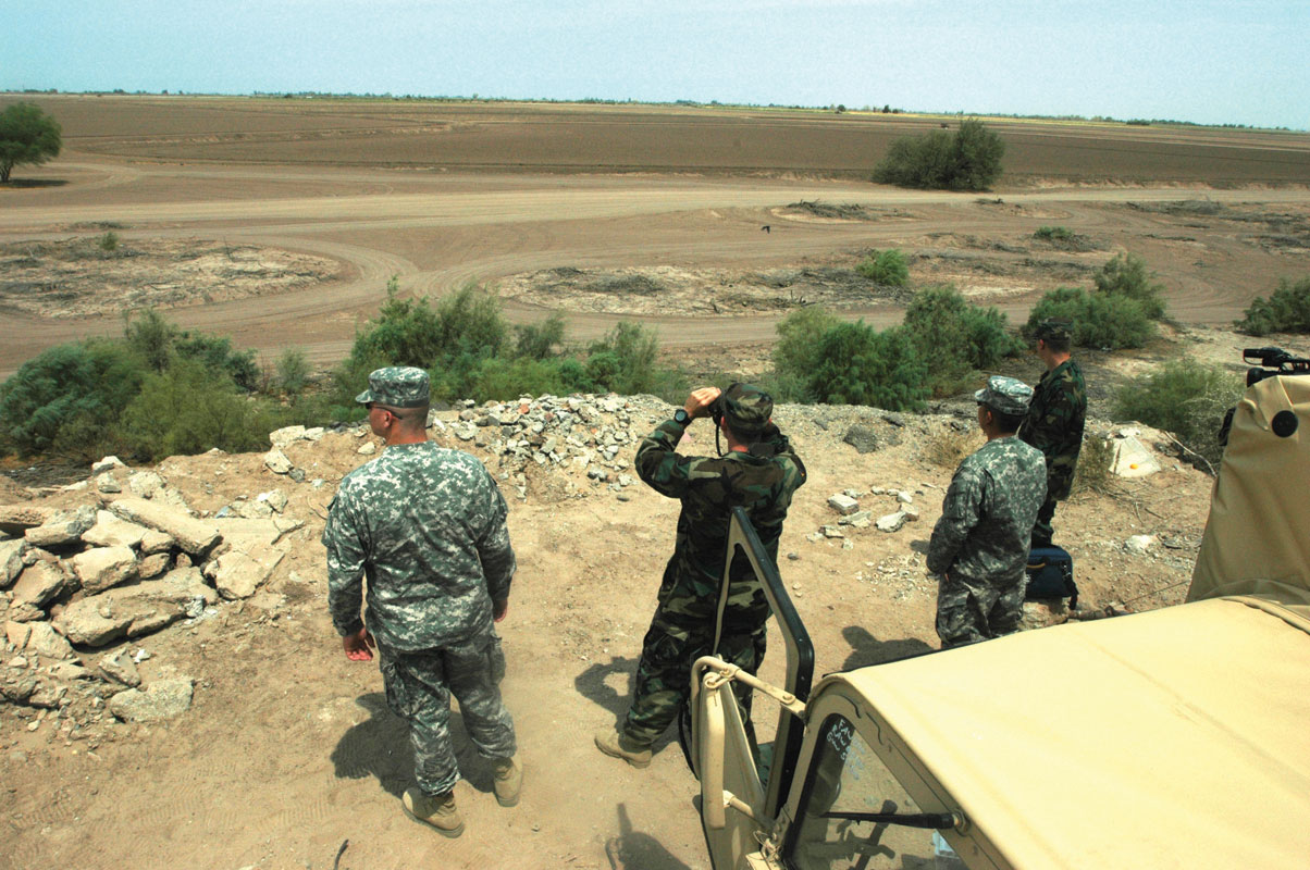 Soldiers assigned to the 252nd Combined Arms Battalion, North Carolina Army National Guard, observe an area of the U.S.-Mexico border in southwest Arizona. The unit is currently deployed here for their annual training requirements, and is working with U.S. Border Patrol in support of Operation Jump Start.